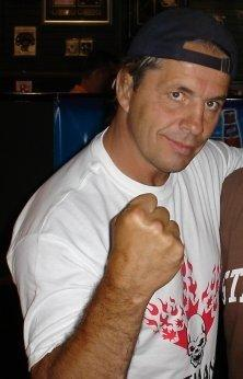 A free use image of Bret Hart by JimmyTrump79 from the English Wikipedia. This photo was taken July 24th, 2005 in Windsor, Ontario at an autograph signing.